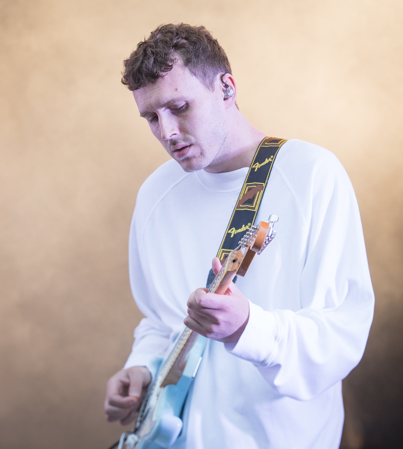 Kai Gundelach at the main stage in the Vigeland Park. The concert was part of Piknik i Parken and took place on 23. June 2017 in Oslo. Lineup: Kai Gundelach (vocal and guitar), Unidentified (drums), Unidentified (keyboard) and Unidentified (guitar).